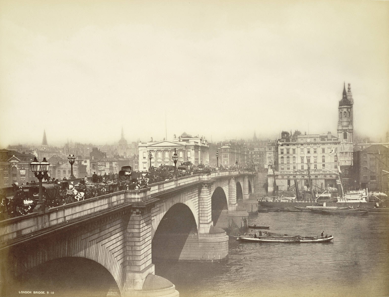 John Rennie’s 19th-century London Bridge. Albumen print 8 1/2 × 11 1/4 in. (21.59 × 28.575 cm). Transfer from the College of Architecture, Art and Planning